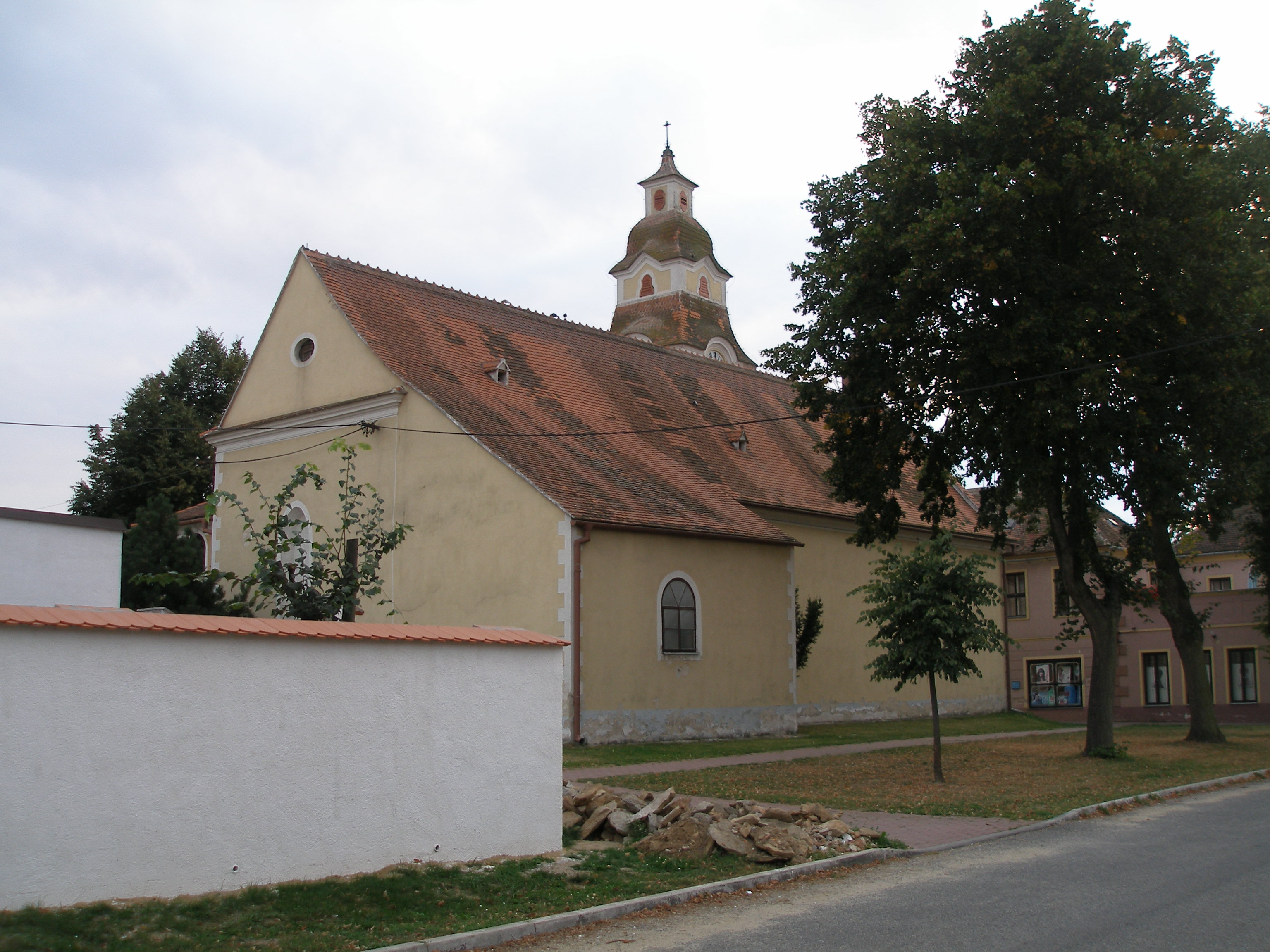 Štítary (Znojmo District, the Czech Republic) - the North-Eastern view of the church of Saint George